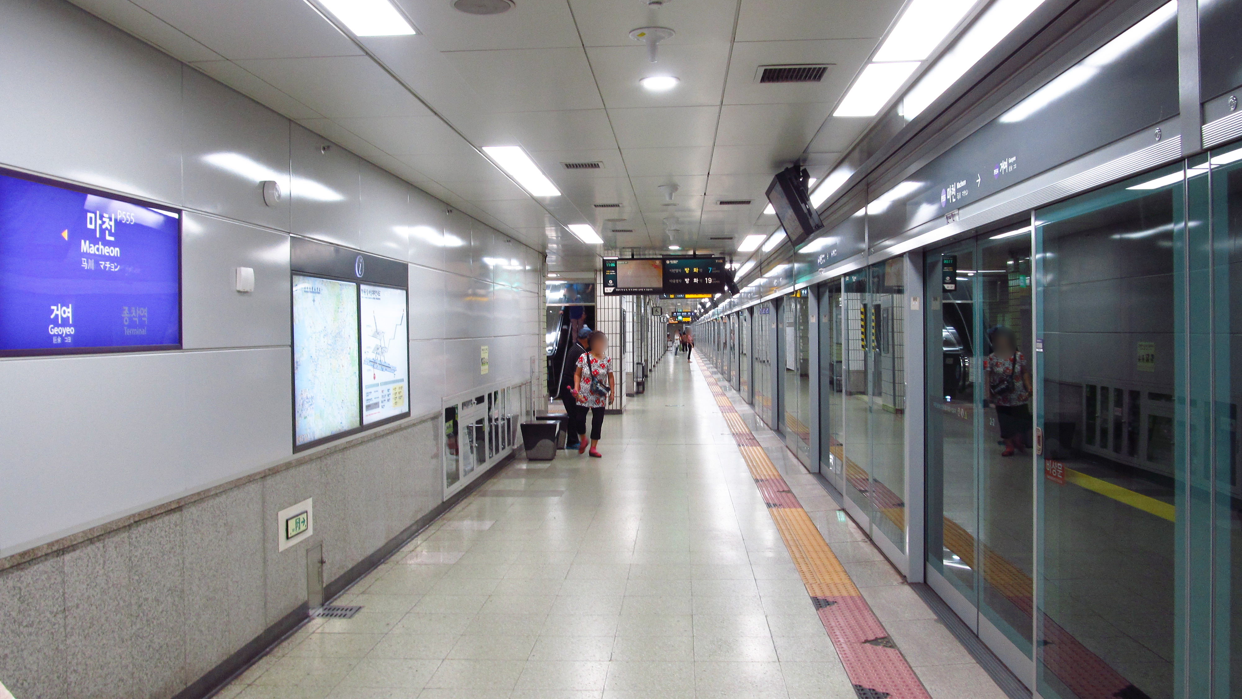 The platform at Macheon Station on Seoul Subway Line 5 in Songpa-gu, Seoul, Republic of Korea(South Korea)